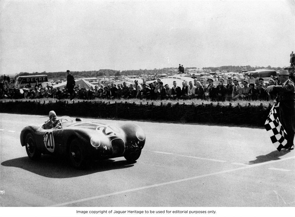 Peter Whitehead crosses the line to win the 24 Hours of Le Mans race in 1951, aboard the winning Jaguar C-type